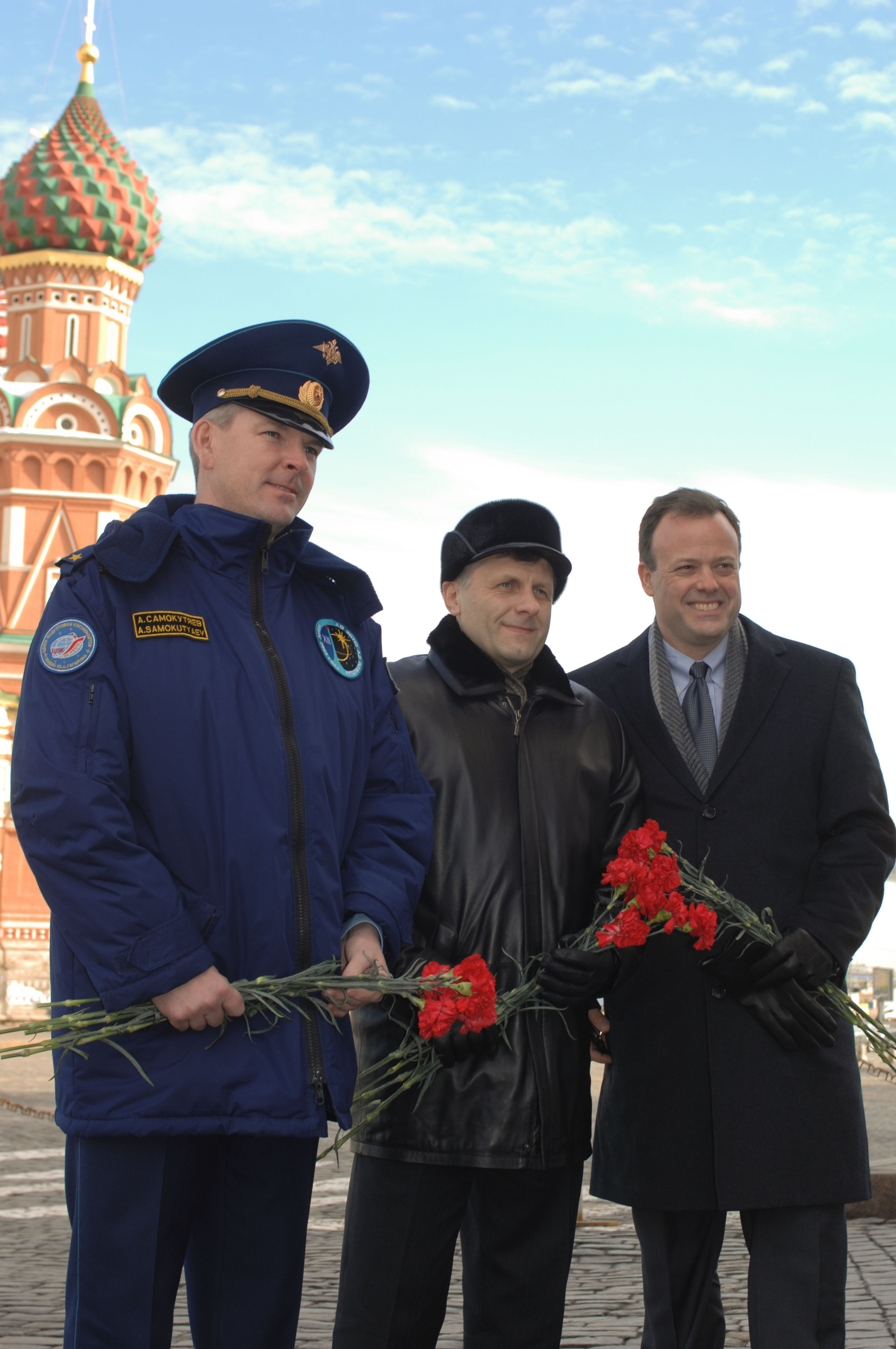 Against a backdrop of St. Basil's Cathedral in Moscow March 11, 2011, (from left to right) Russian cosmonauts Alexander Samokutyaev, Andrey Borisenko and NASA astronaut Ron Garan prepare to lay flowers in a ceremonial tribute to Russian icons as part of activities leading to their launch March 30 (Kazakhstan time) in the Soyuz TMA-21 spacecraft from the Baikonur Cosmodrome to spend 5 ½ months on the International Space Station.